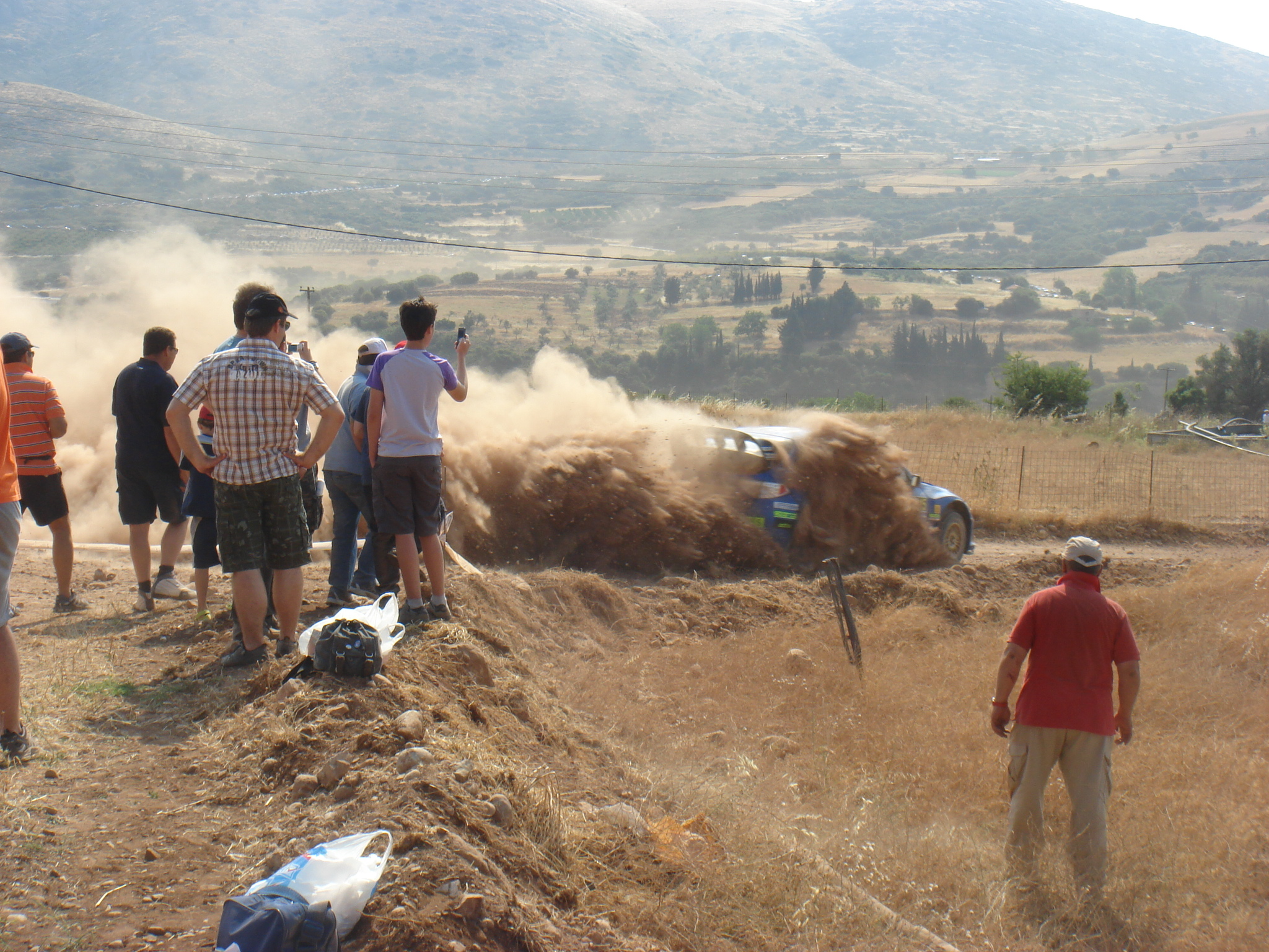 Mads Østberg driving a Subaru Impreza WRC2008 at the 2009 Acropolis Rally.